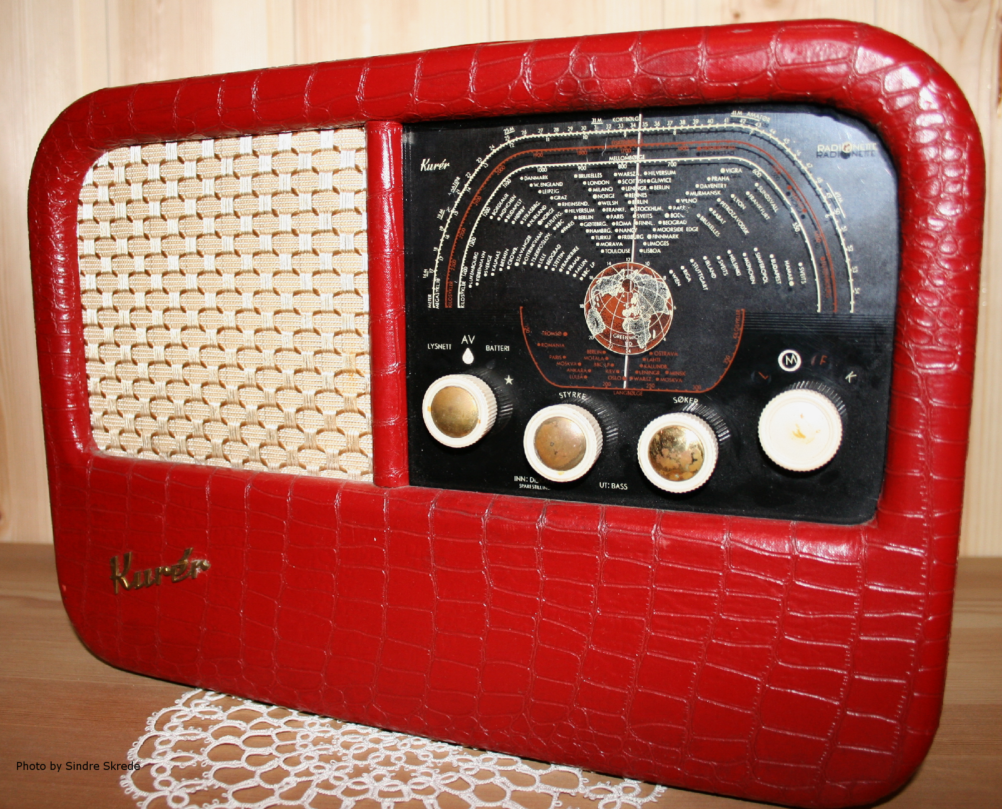 Front side of a Radionette Kurér radio, produced in Norway by "Jan Wessel, Radionette Norsk Radiofabrikk" ("Jan Wessel, Radionette Norwegian Radiofactory") from 1950-1957. The unit cost was 388 NOK in 1950.